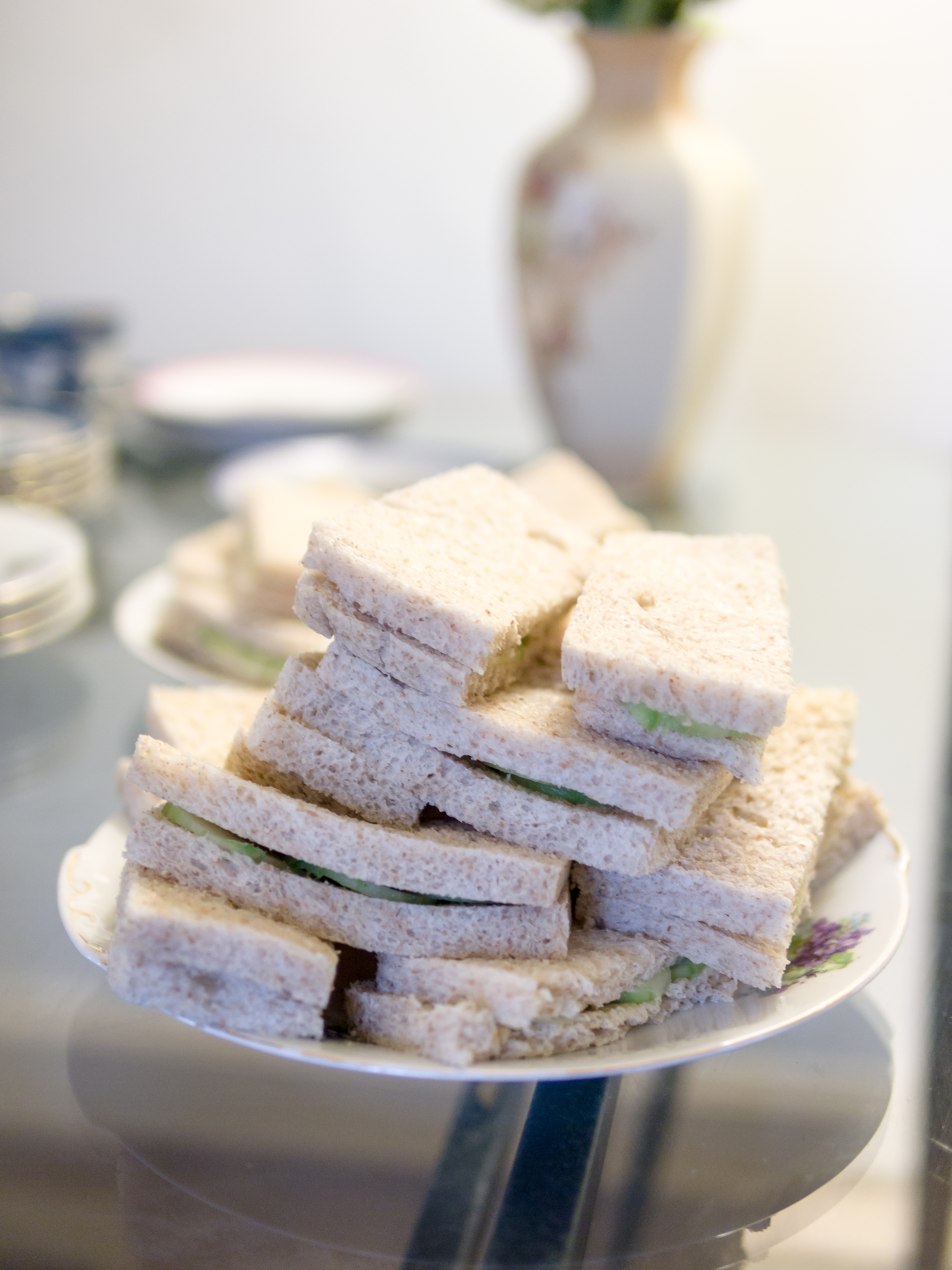 Ready for a tea party